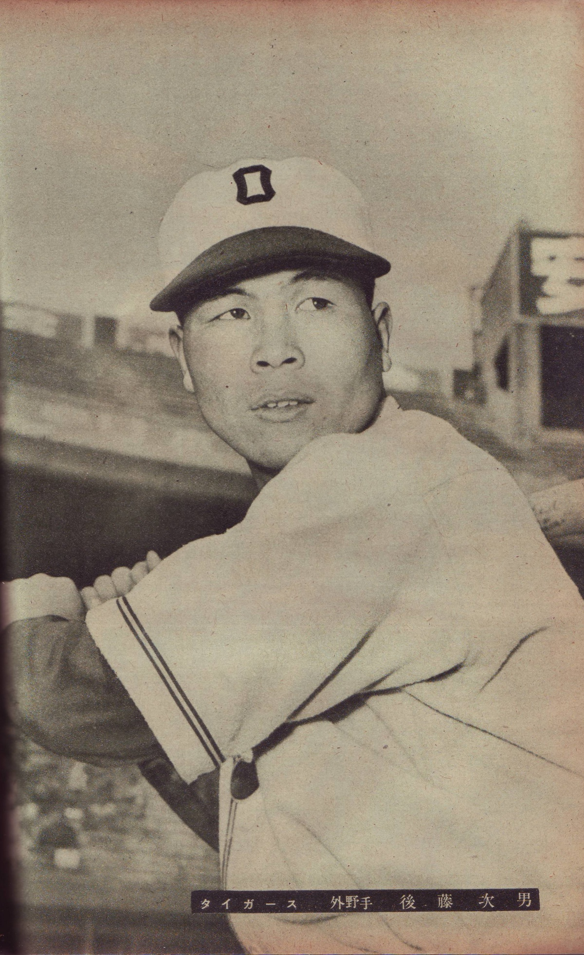 Tsuguo Goto (Hanshin Tigers). taken in 1950.